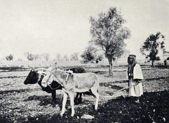 Text of cropped caption: Ploughing in Judea By permission of The American Colony Photographers, Jerusalem